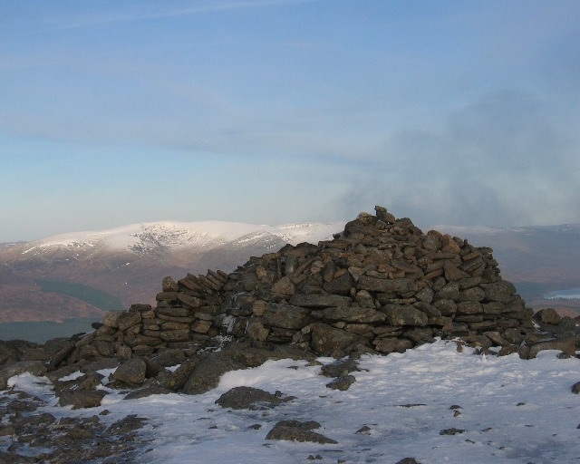 Summit of Chno Dearg. The snow covered hill beyond is Creag Meagiadh.